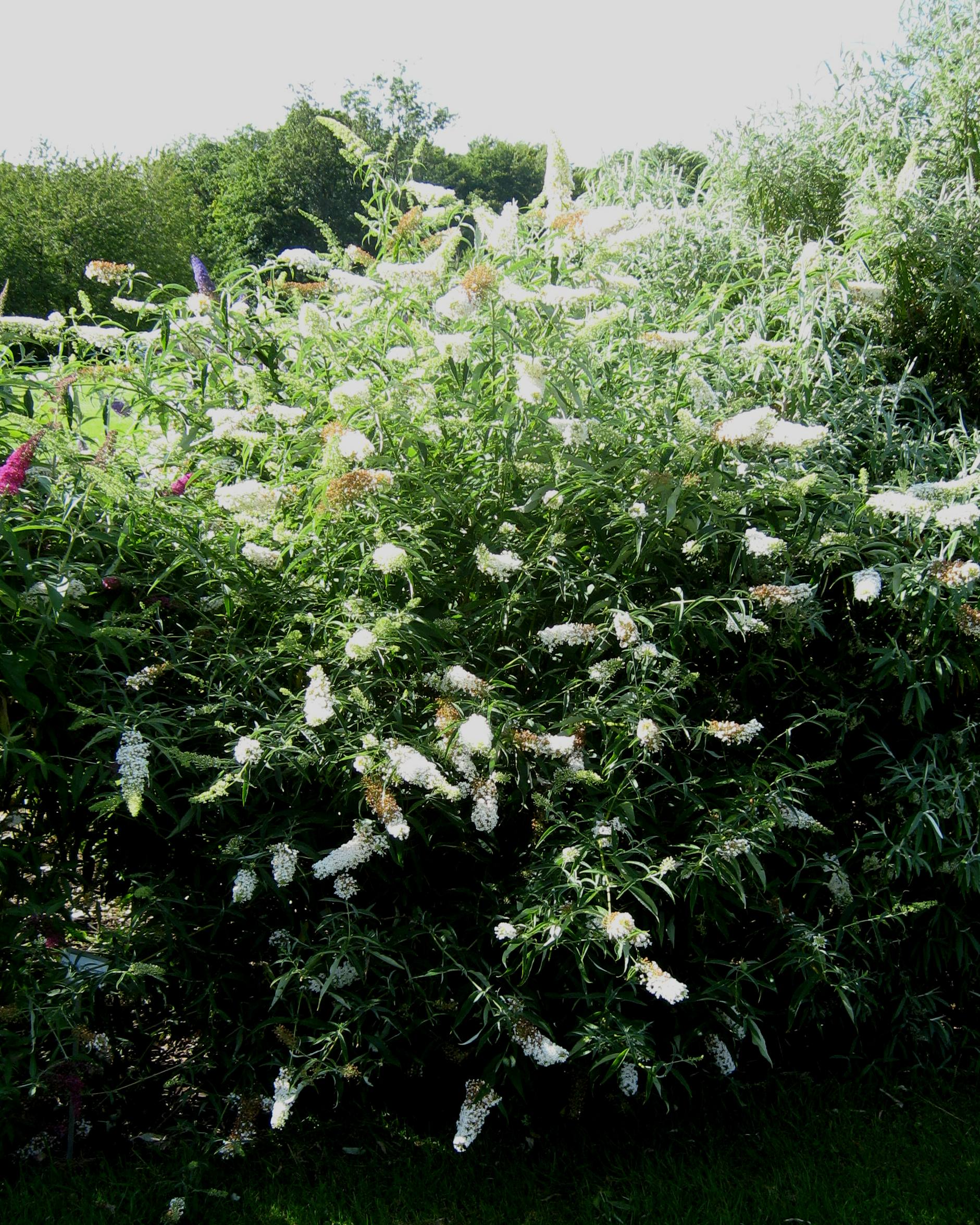 Photo of Buddleja cultivar 'Dart's Ornamental White' taken at Longstock Park, UK, August 2012